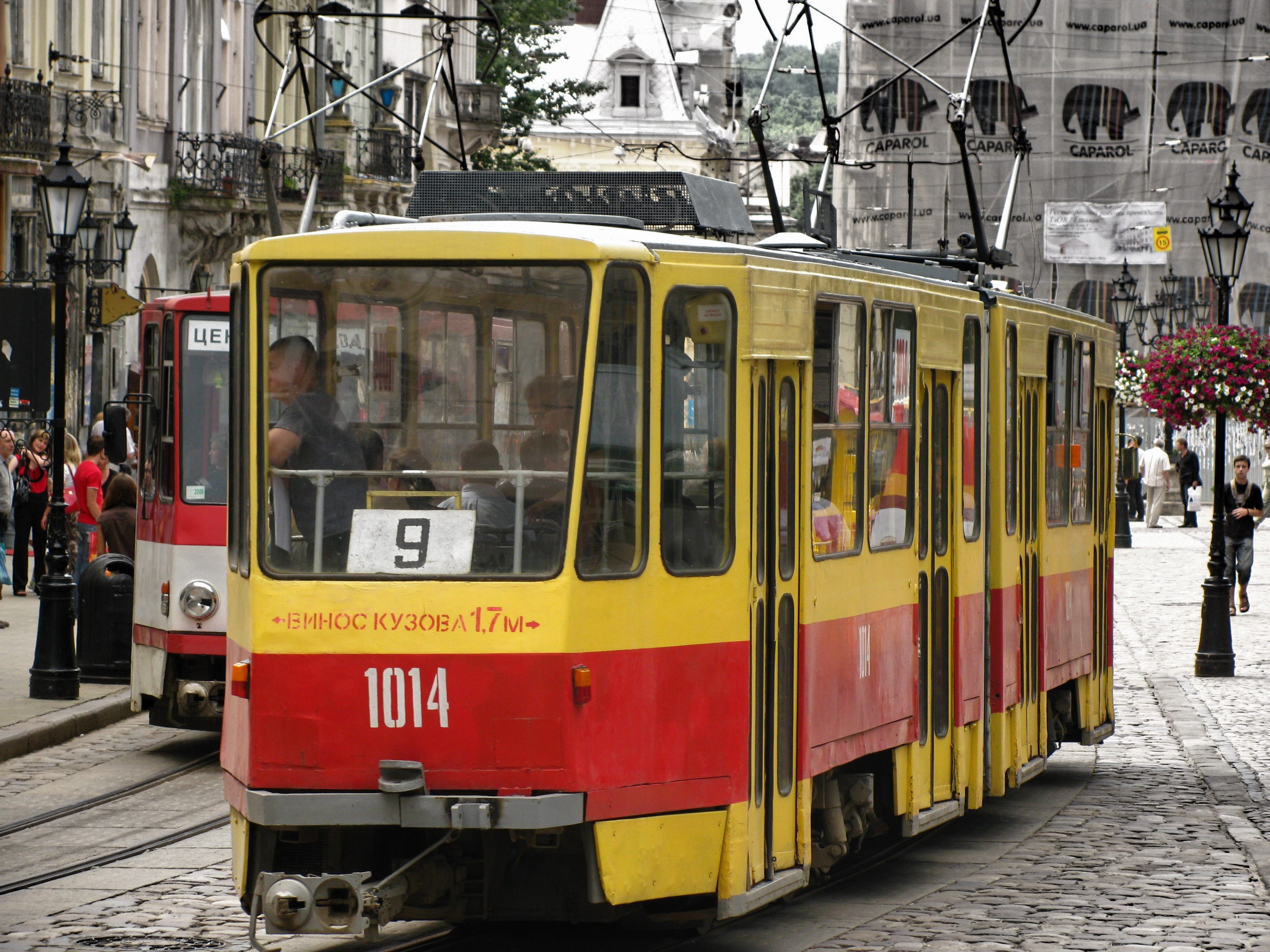 Tatra KT4SU in Lviv, Ukraine